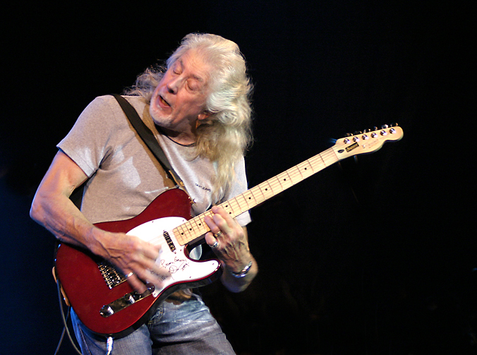 Blues guru John Mayall, from a concert at the Notodden Blues festival in 2004.